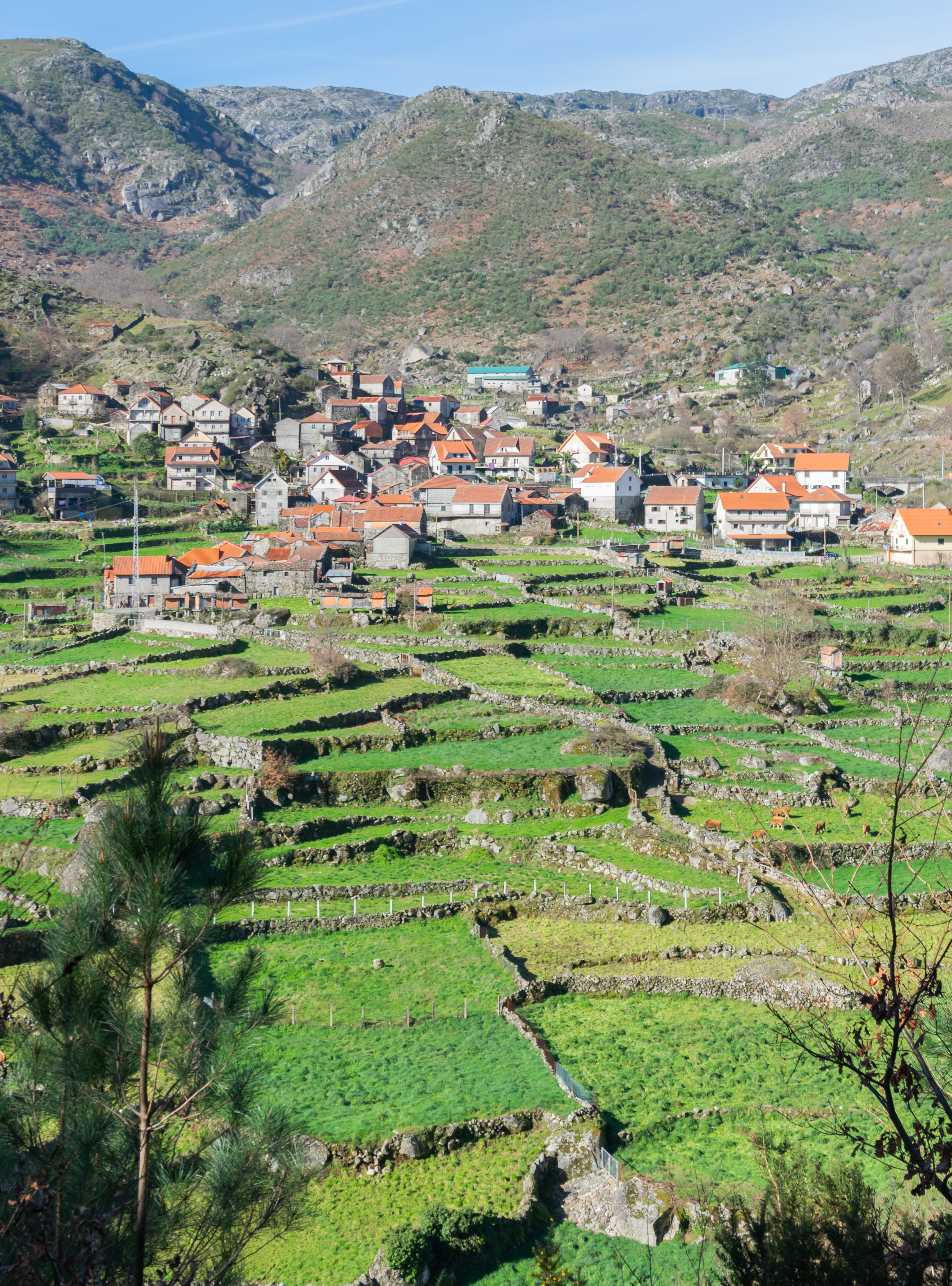 Rouças settlement in Gavieira parish in commune of Arcos de Valdevez, Minho, Portugal